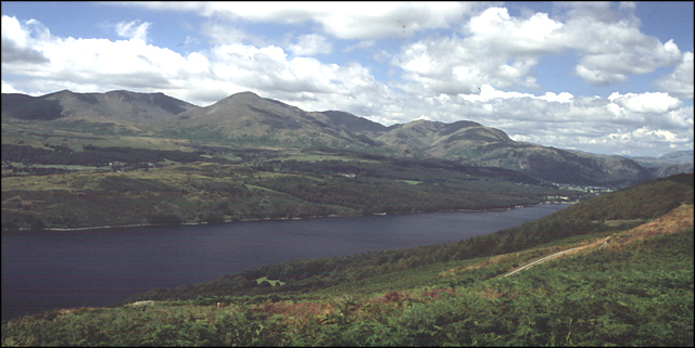 View from Great Hill, Selside.View from the great Hill, looking northwards up Coniston Water with the 'Old Man of Coniston' visible on the left. This is a great walk to take in the south of the lakes. You meet virtually no one and after a stiff climb, the views are superb. A good circular route can be started from the small car park in the woods at Crabs Haw (SD297908). We walked down the road from there to High Nibthwaite and then took the path leading up the side of High Wood. Once at the top, you walk round a farm and then onto open moorland heading towards Top o' Selside from where you can pick up a green lane back down to the car park. Wear decent footwear though, it gets boggy in places, even in the summer.